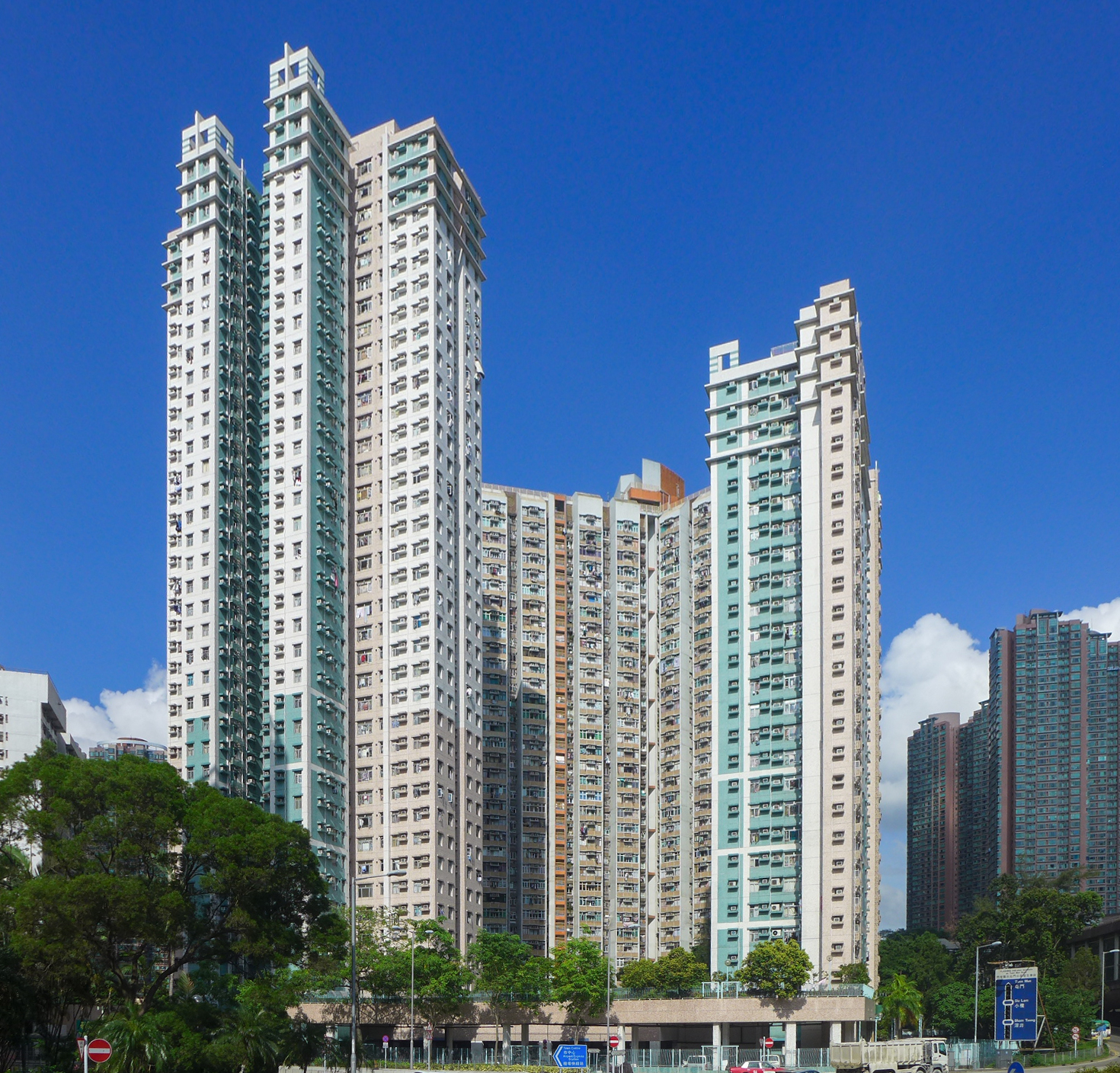 Easeful Court